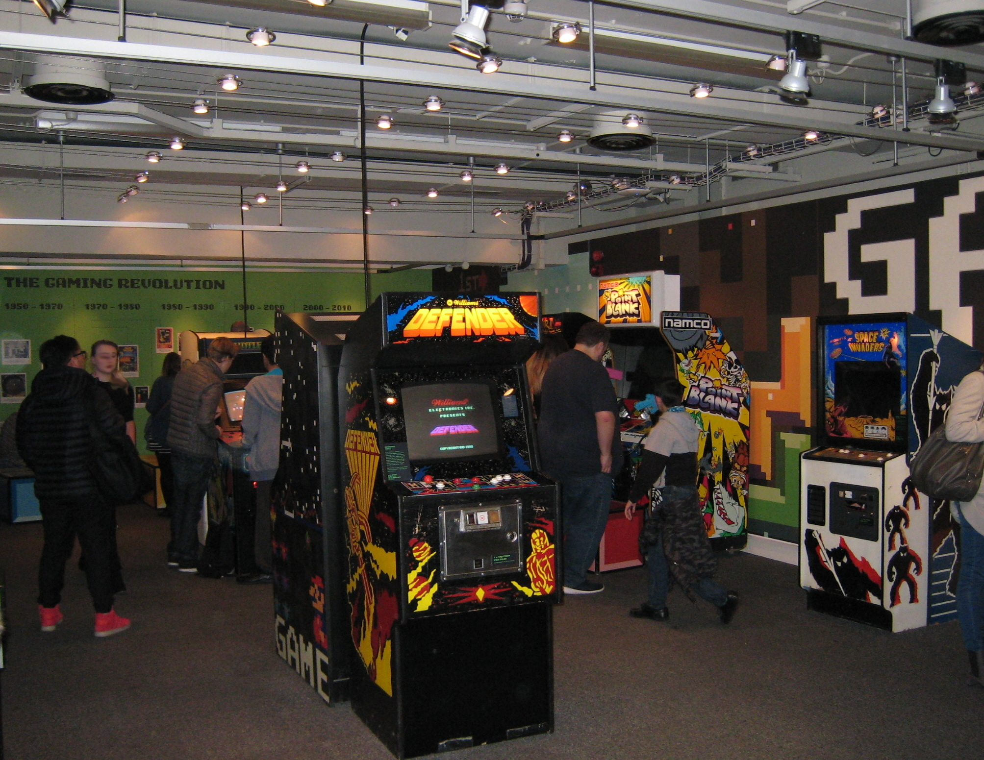 National Media Museum, Bradford UK. Games Lounge.